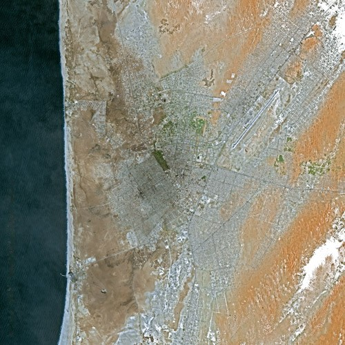 Nouakchott by SPOT Satellite